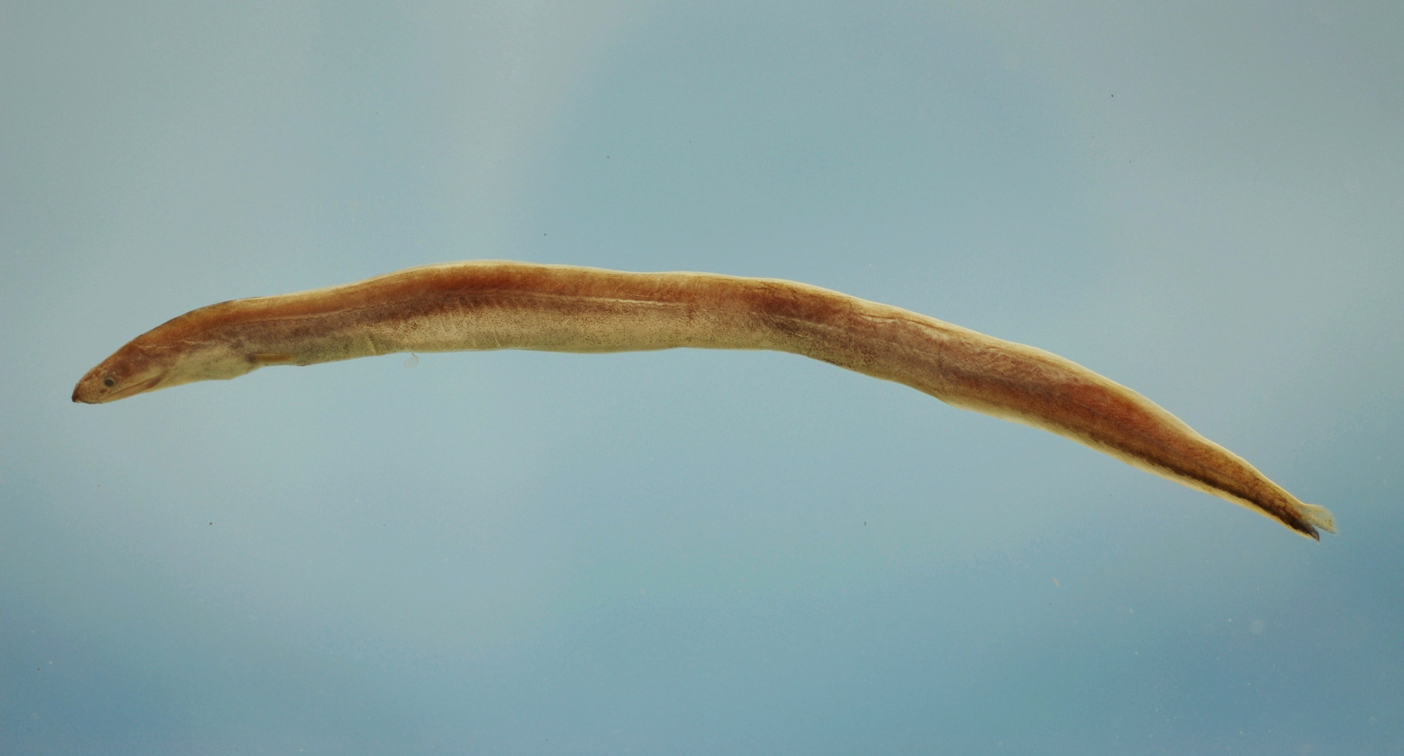 Shortbelly eel or blind arrowtooth eel ( Dysomma anguillare )